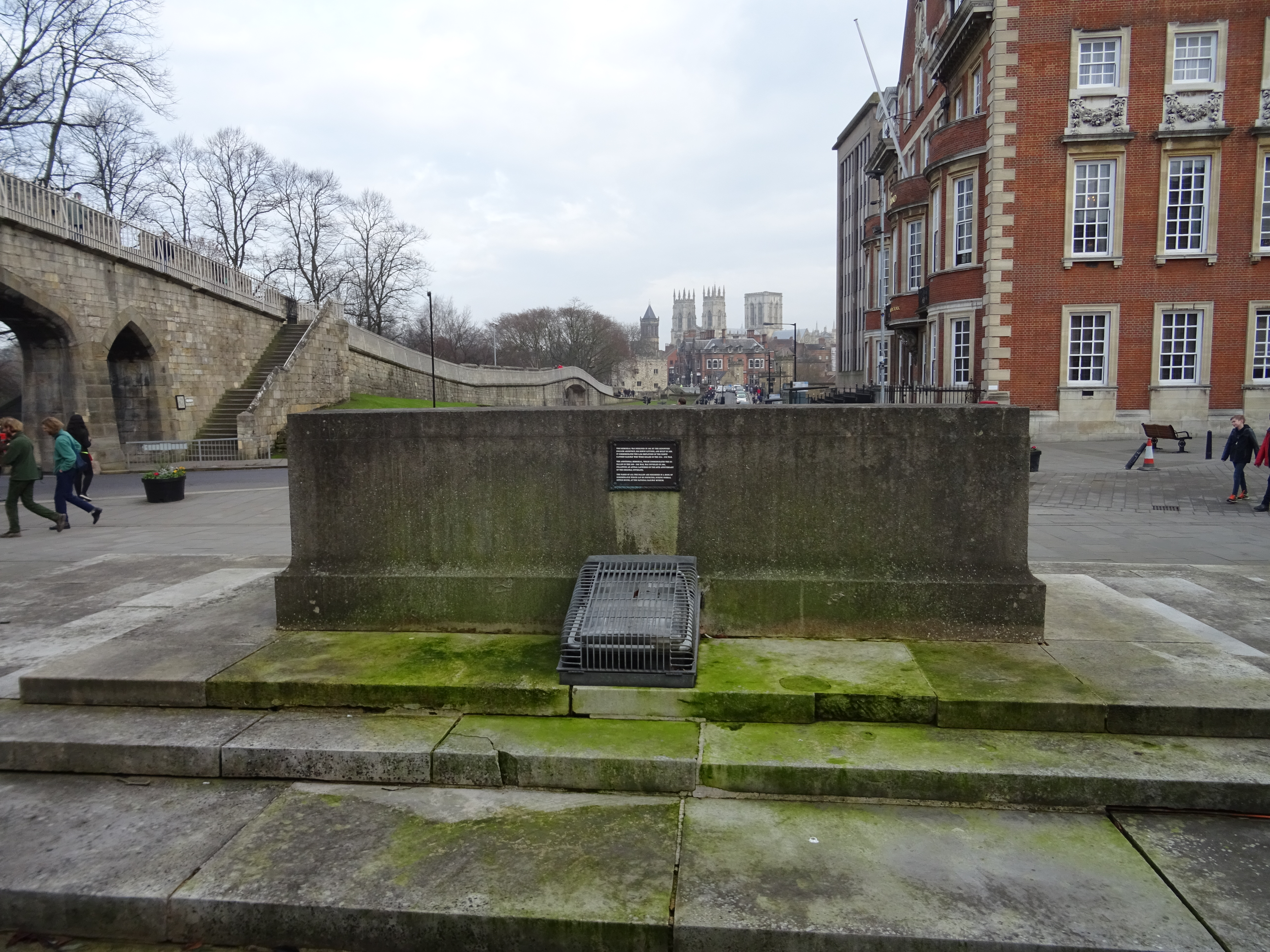 North Eastern Railway War Memorial in York - rear view of Stone of Remembrance with York Minster in the background